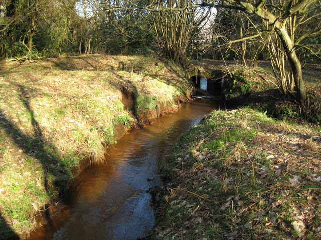 Stanford Brook on Stanford Common Stanford Brook drains the heathland of Stanford Common. Lower Stanford Bridge is just visible.